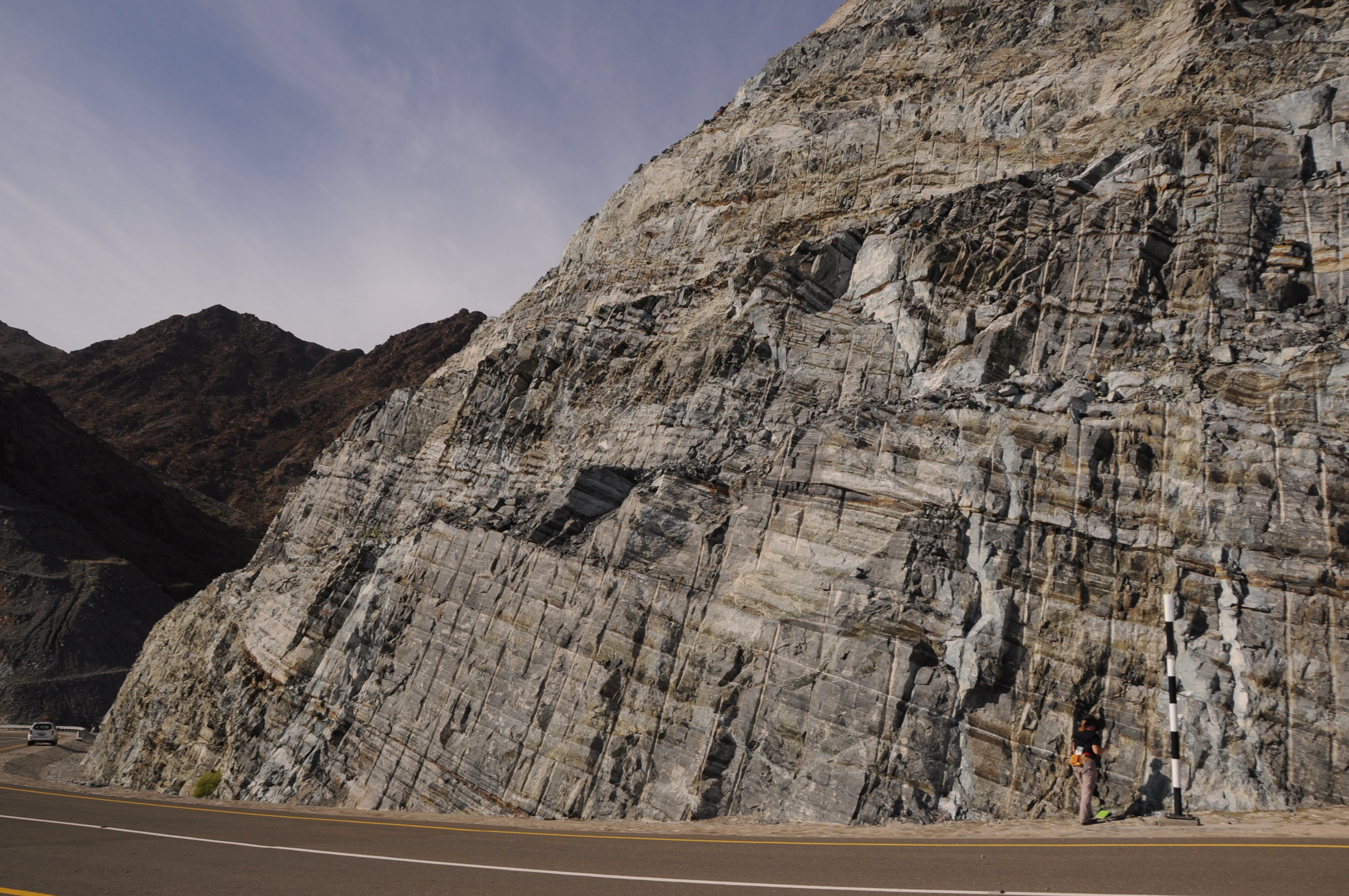 Layered gabbro in Al Batinah Region, Oman. Credit: Anita Di Chiara (distributed via )